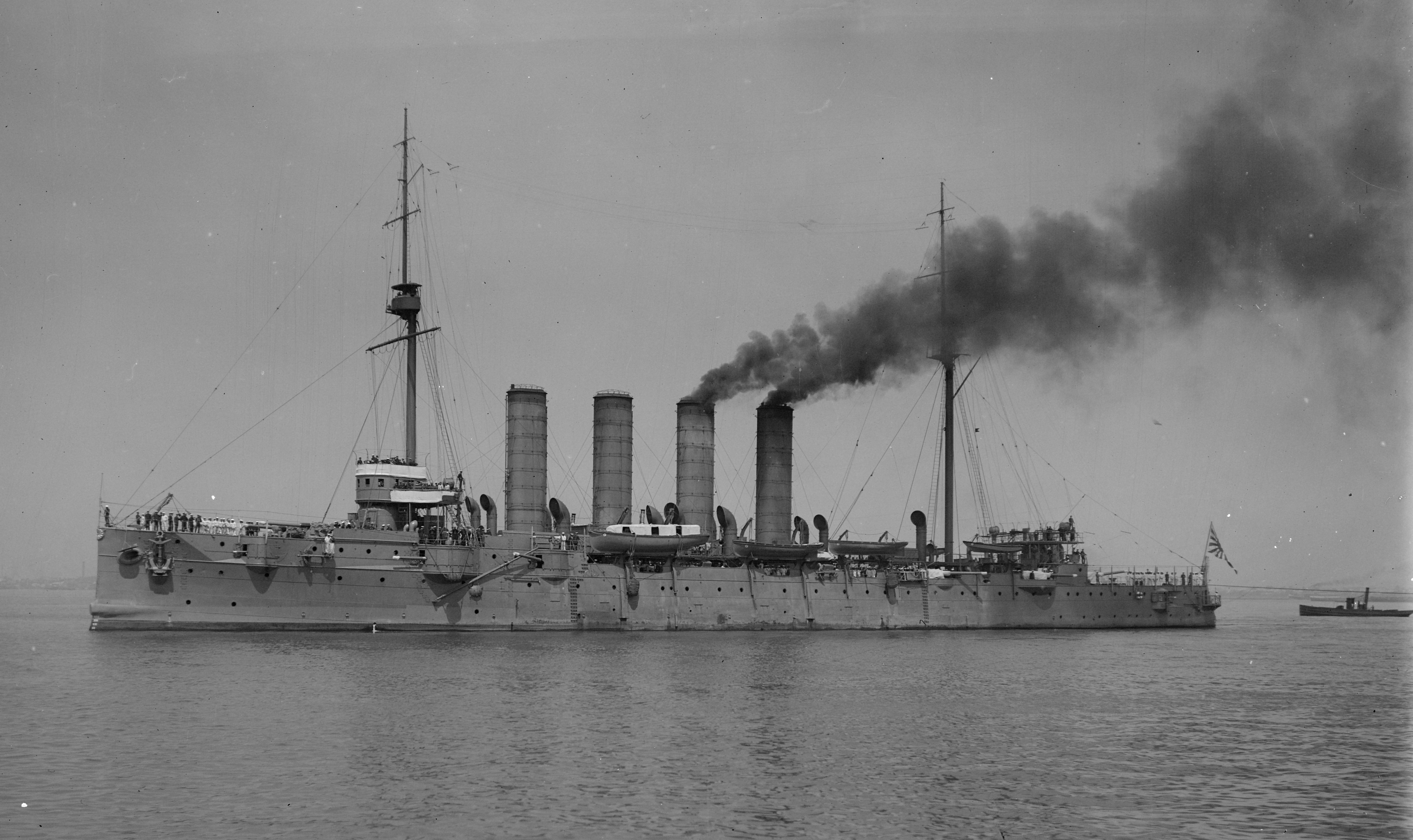 The Imperial Japanese protected cruiser Soya (ex Russian Varyag).